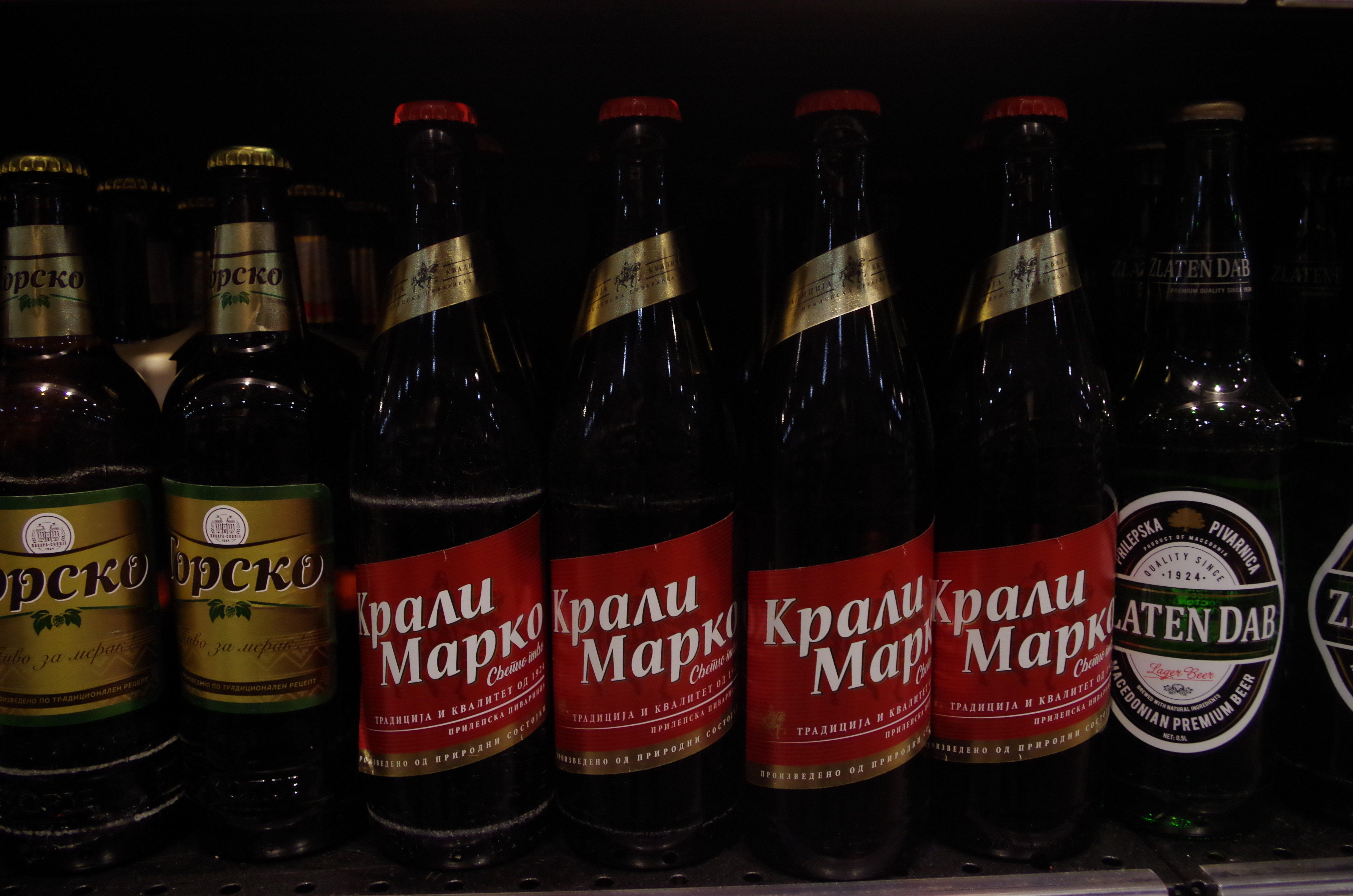 Bottles of "Krali Marko", "Gorsko" and "Zlaten Dab"